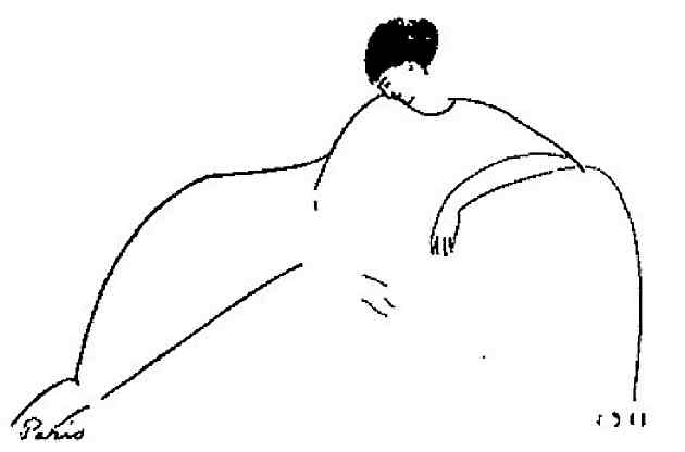 Akhmatova, Anna by Amedeo Modigliani